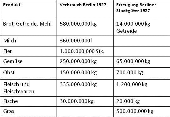 The table shows the consumption of chosen foods in Berlin in 1927 and the production of which by Berliner Stadtgüter at the same time.